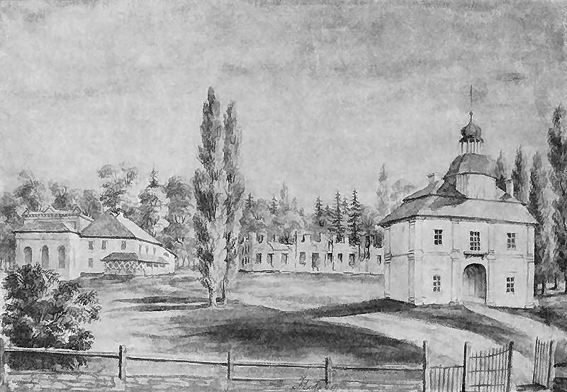 Napoleon Orda Holoby